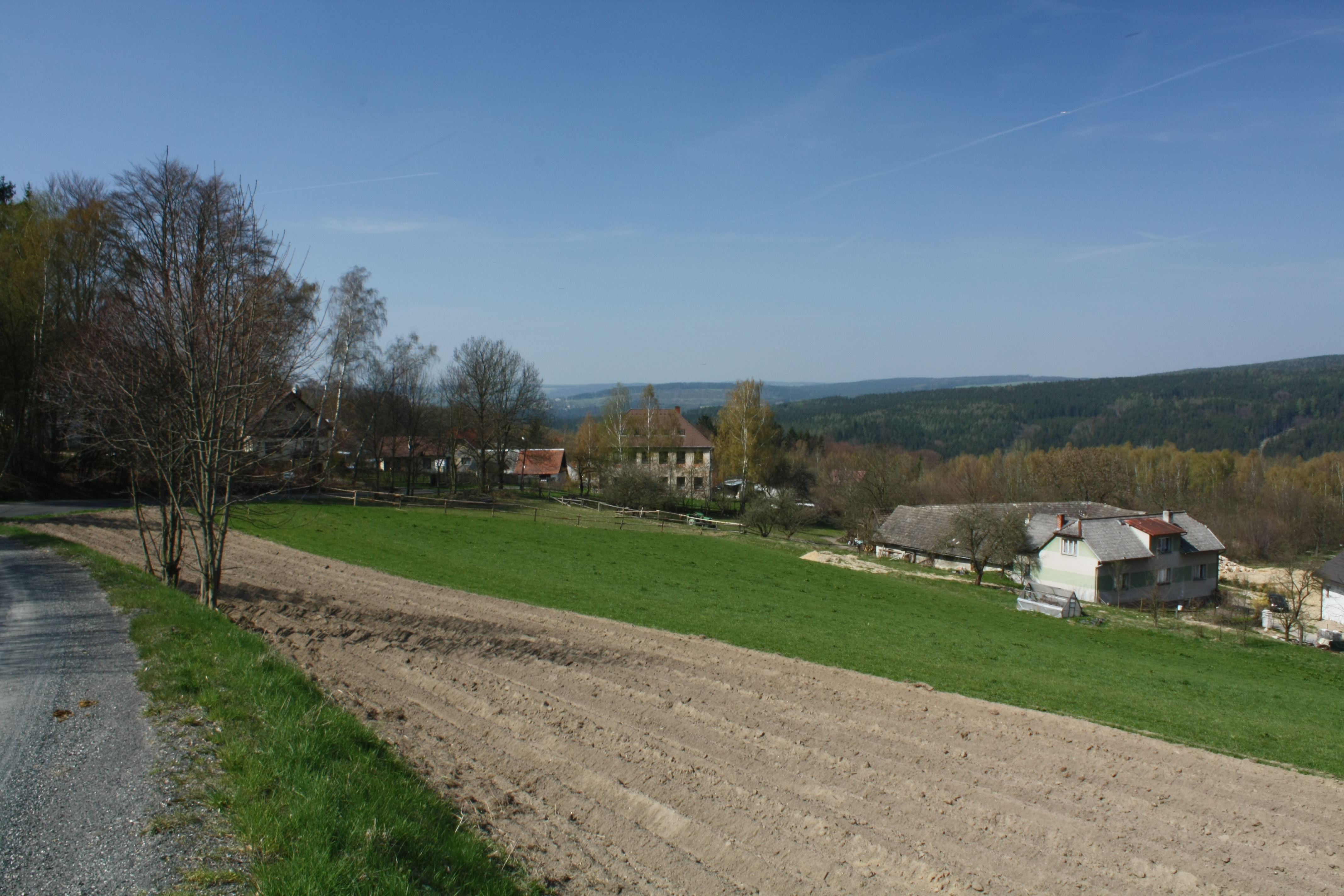 Trpišovice, Havlíčkův Brod District, Czech Republic Object location49° 39′ 20.21″ N, 15° 19′ 54.35″ E